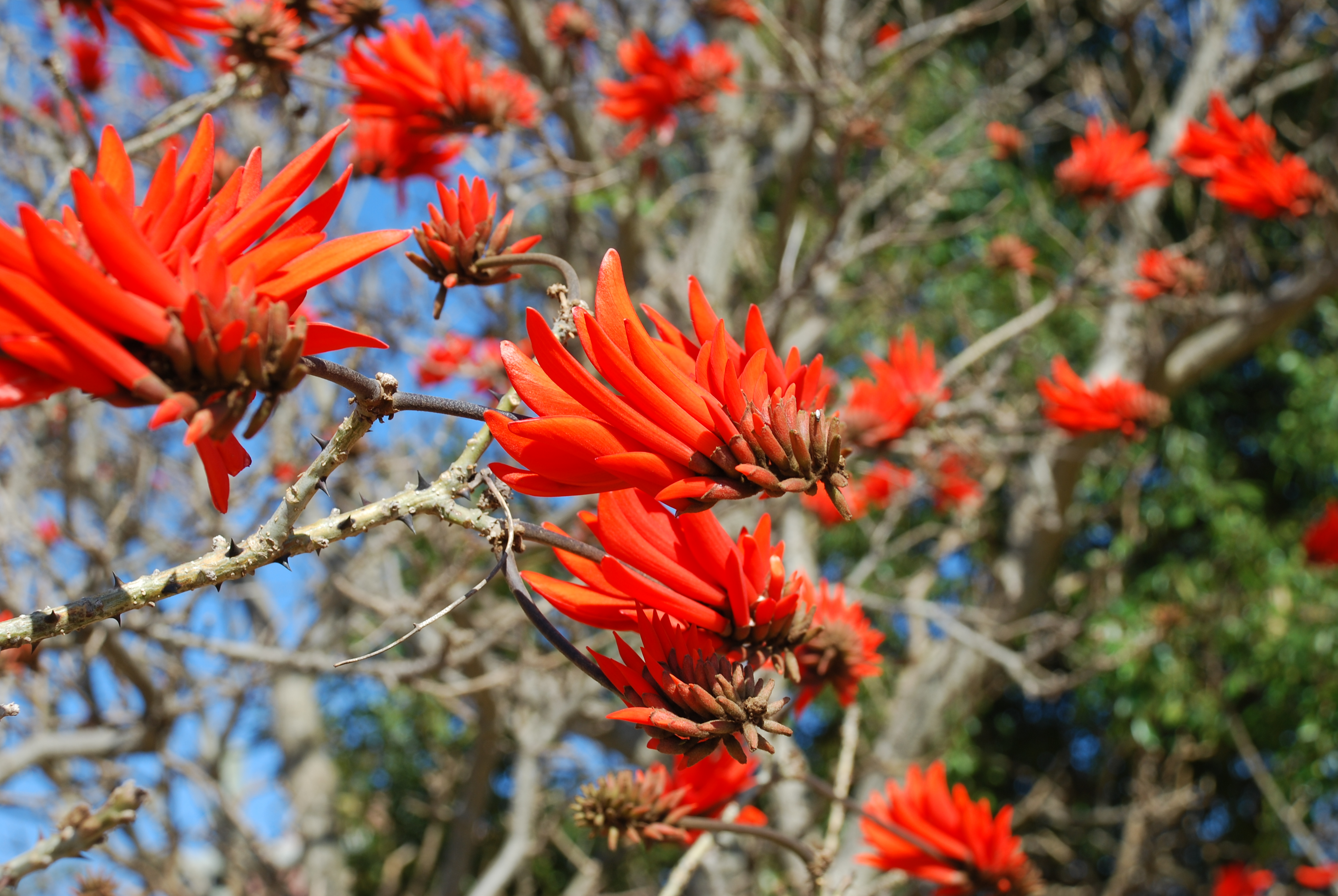 Erythrina lysistemon (coral tree) flower